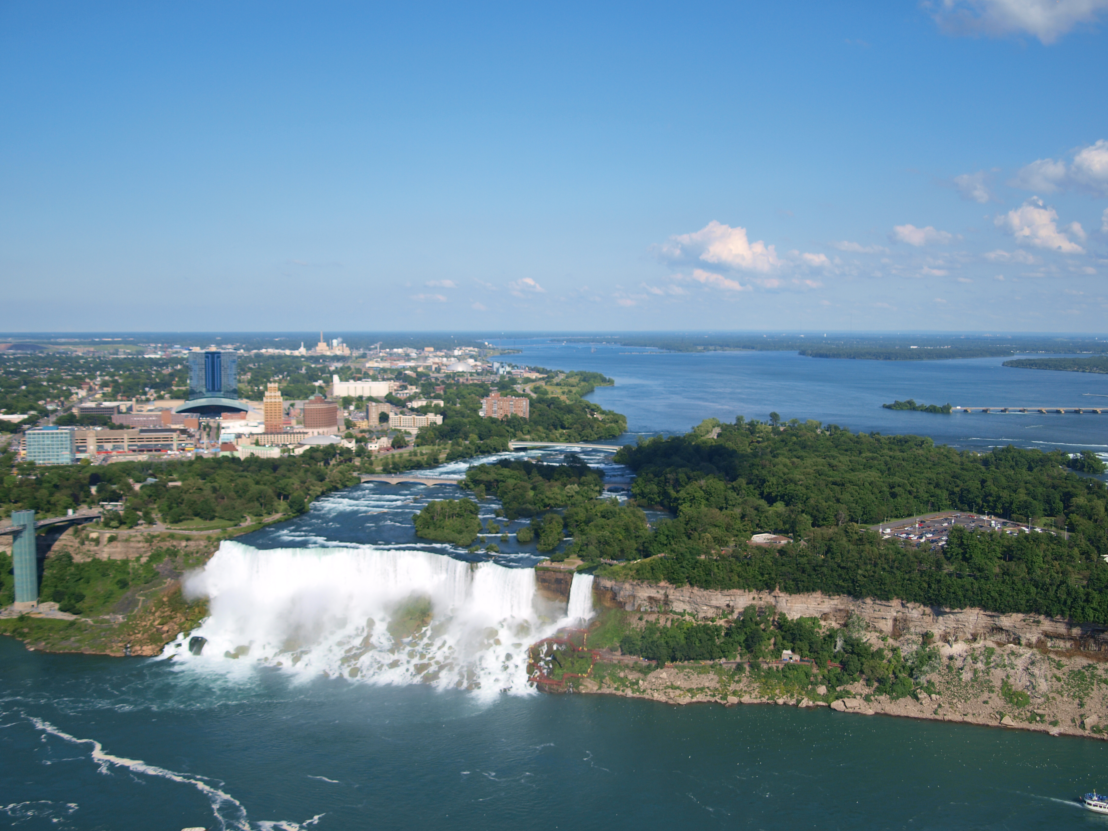 American and Bridal Falls as seen from Skylon Tower, Niagara Falls